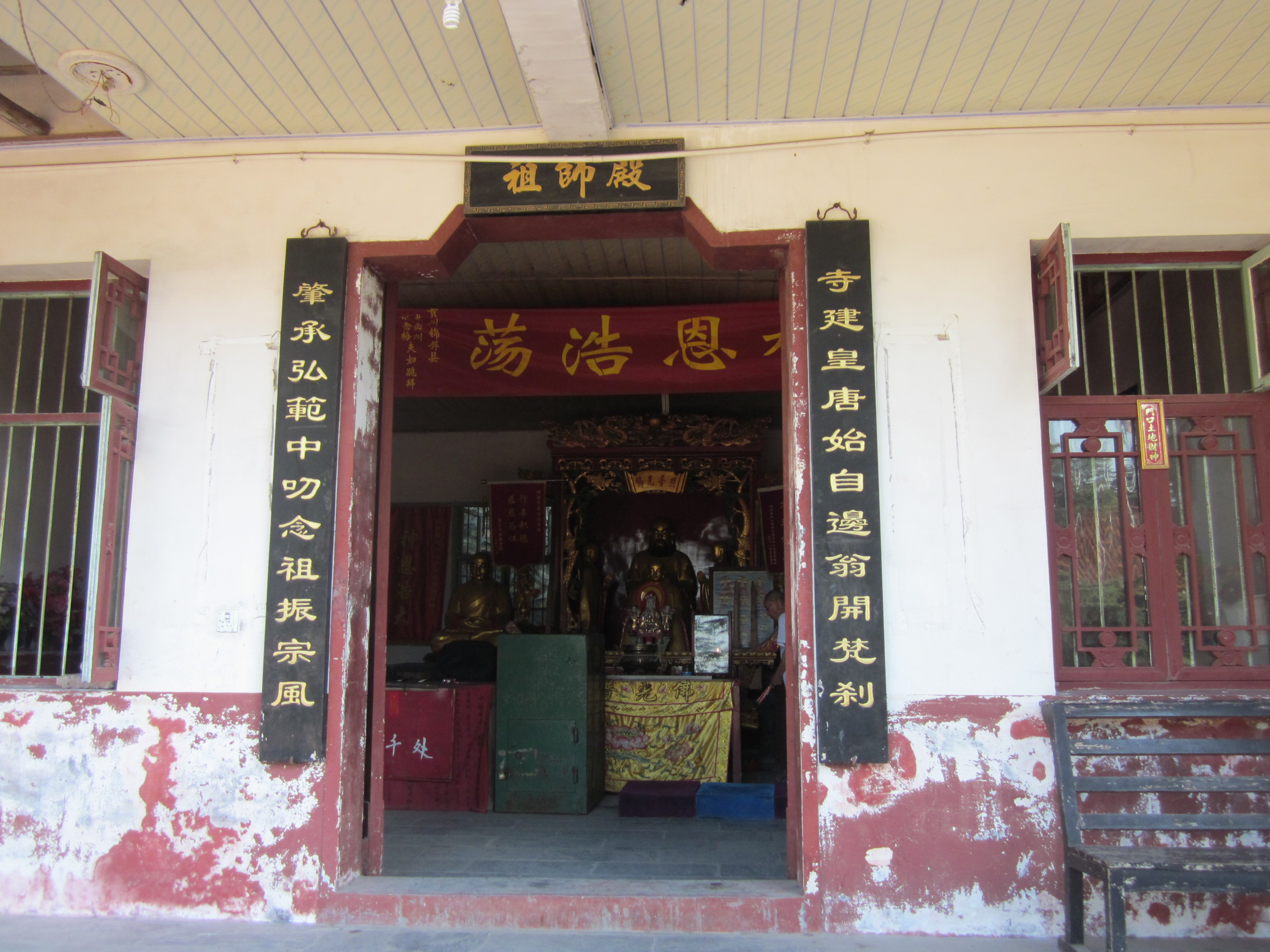 The Guru Hall at Baiyun Temple, in Ningxiang County, Hunan, China.